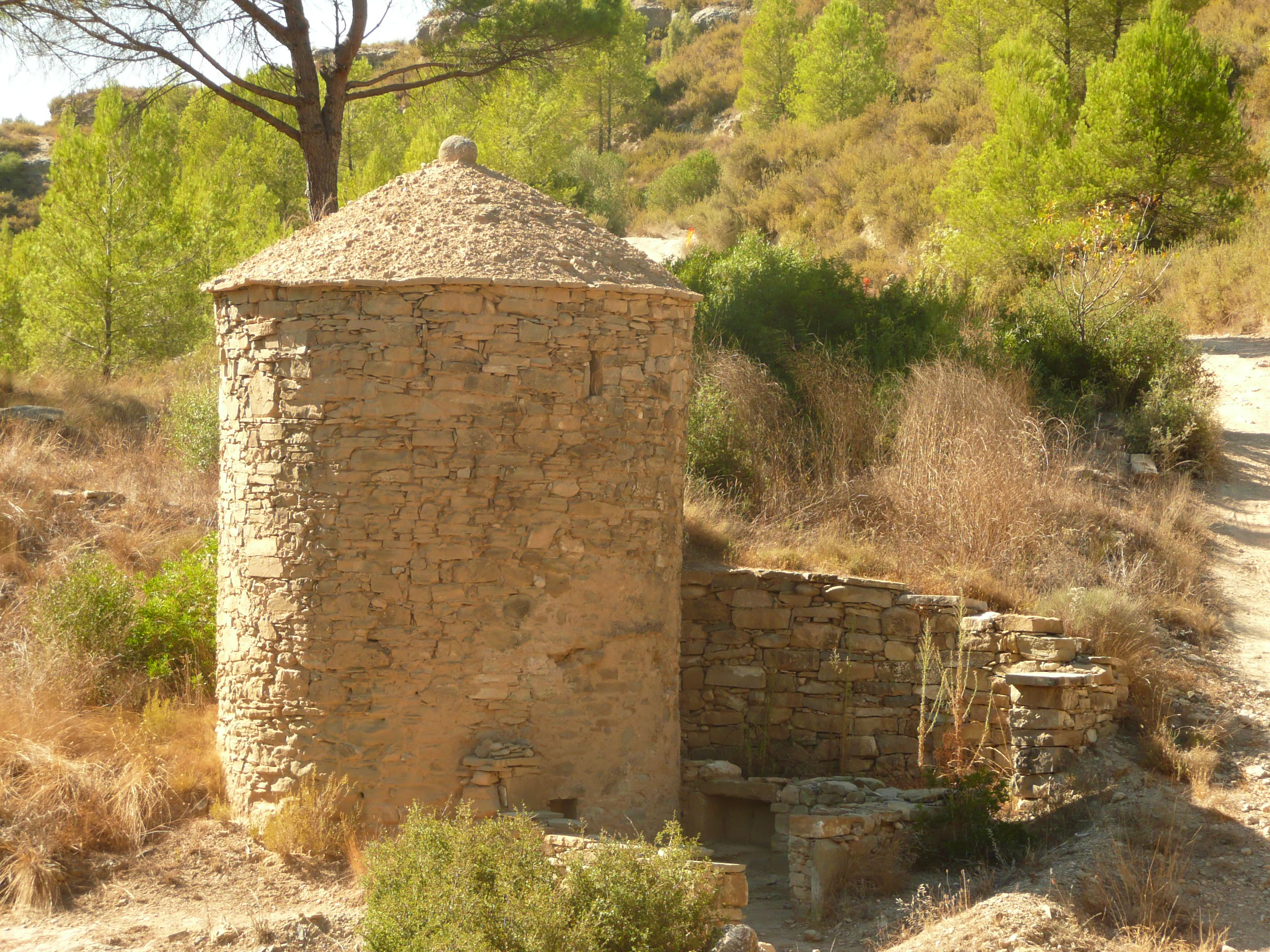 Press wine in the river of Mura (Talamanca, Barcelona, España).